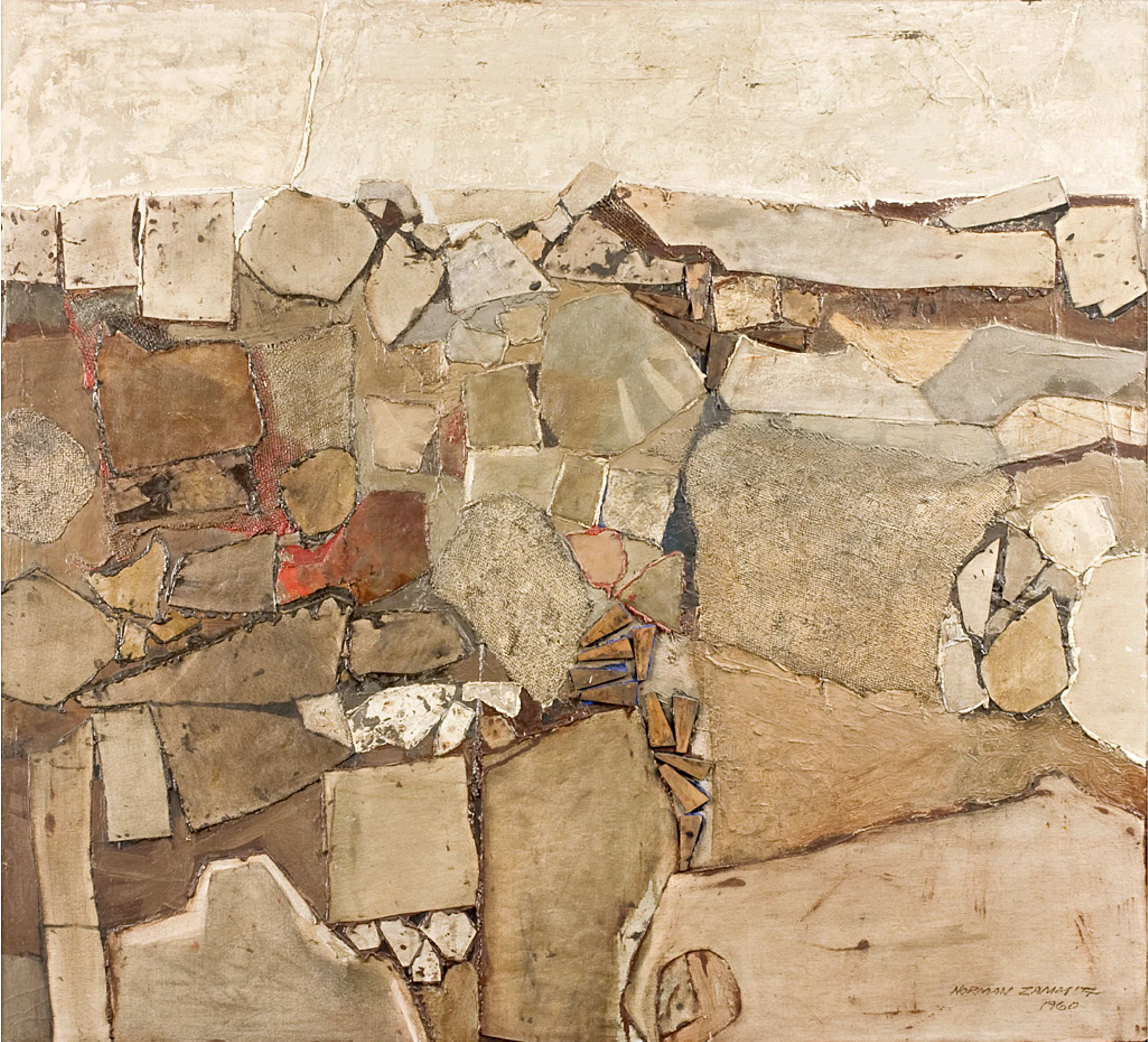 Norman Zammitt